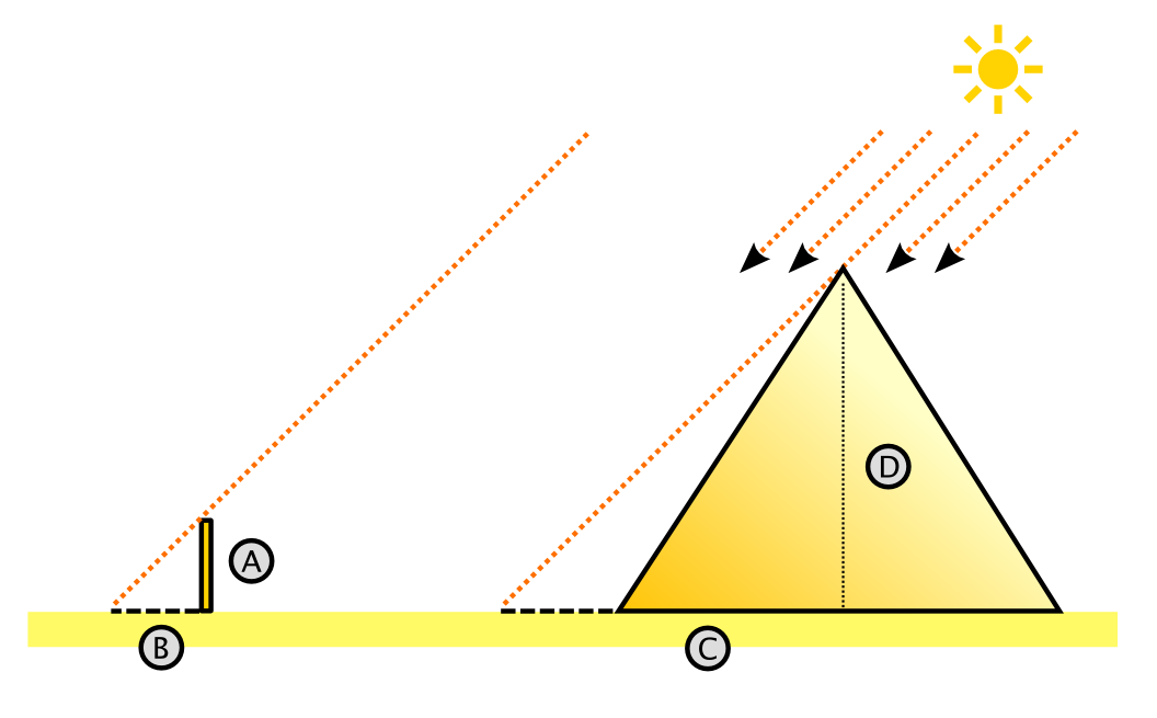 Computing the height of the Great Pyramid of Giza using a stick and the lengths of the shadows on the floor. An illustration of the geometric intercept theorem, attributed to Thales. Height of the Cheops Pyramid According to some historical sources the Greek mathematician Thales applied the intercept theorem to determine the height of the Cheops' pyramid. The following description illustrates the use of the intercept theorem to compute the height of the Cheops' pyramid. It does not however recount Thales' original work, which was lost. Thales measured the length of the pyramid's base and the height of his pole. Then at the same time of the day he measured the length of the pyramid's shadow and the length of the pole's shadow. This yielded the following data: height of the pole (A): 1.63m shadow of the pole (B): 2m length of the pyramid base: 230m shadow of the pyramid: 65m From this he computed C = 65 m + 230 m 2 = 180 m {\displaystyle C=65m+{\frac {230m}{2 =180m} Knowing A,B and C he was now able to apply the intercept theorem to compute D = C ⋅ A B = 1.63 m ⋅ 180 m 2 m = 146.7 m {\displaystyle D={\frac {C\cdot A}{B ={\frac {1.63m\cdot 180m}{2m =146.7m}